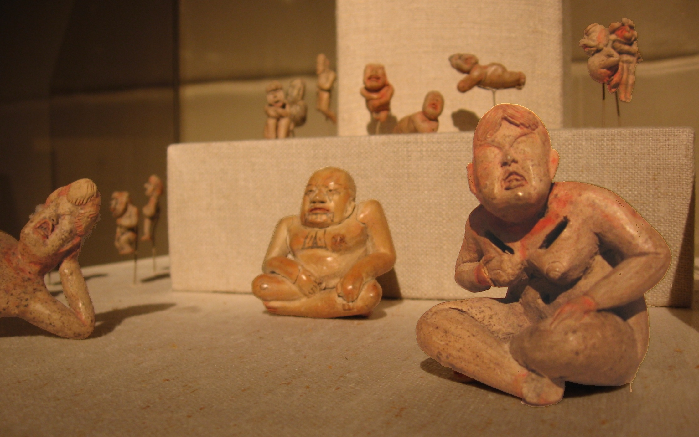 Some small Olmec terracotta figurines from the Metropolitan Museum of Art. Most of the figurines have a white slip and have been painted with symbolic and realistic features. The hunchback in the center (6.7 cm; 2.4 in) has paint around his eyes and mouth, and on his chest.